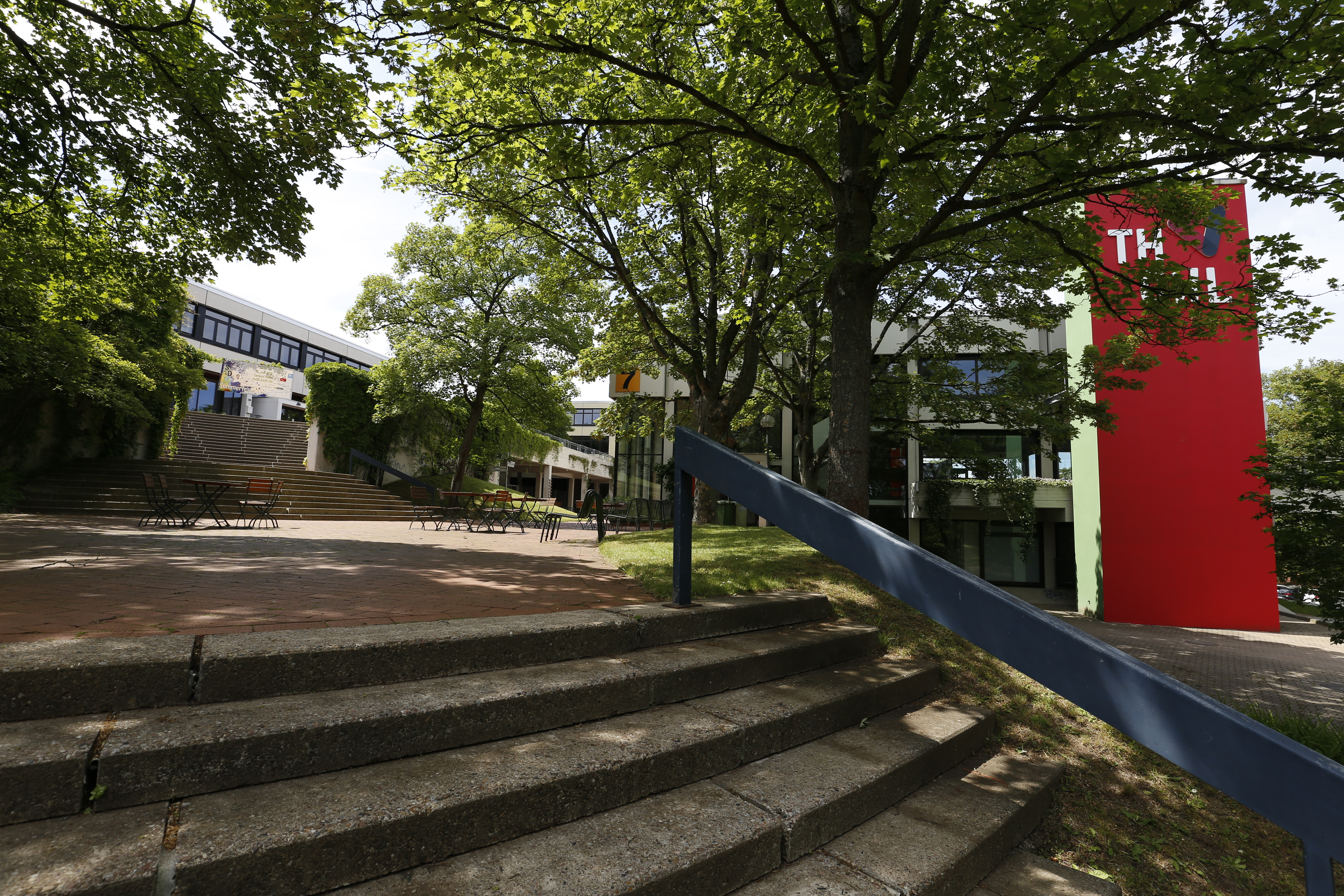 Campus of the OWL University of Applied Sciences and Arts at Hoexter, Germany - entrance area with canteen on the right side